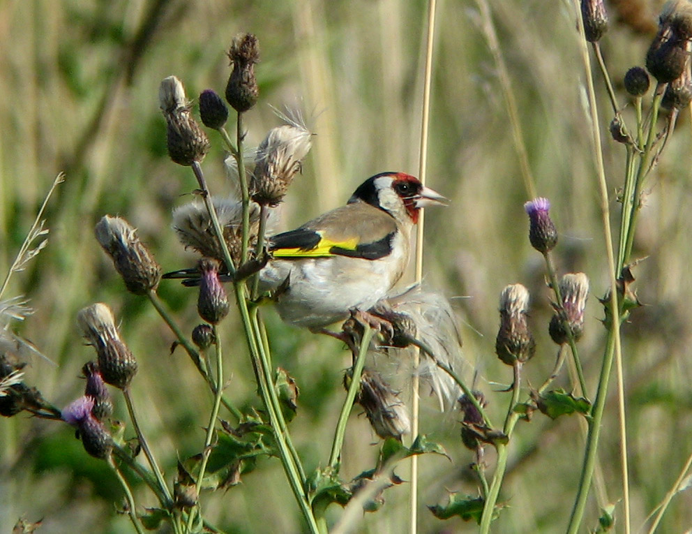 European Goldfinch Carduelis carduelis, St Mary's Wetland, Whitley Bay, Northumberland, UK; 8 August 2005